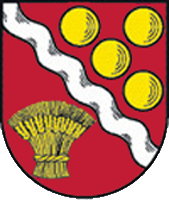 Coat of Arms of Emlichheim (Samtgemeinde)